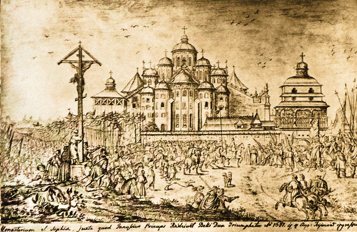 Saint Sophia Cathedral in Kiev in 1651 by Abraham Evertsz. van Westerveld